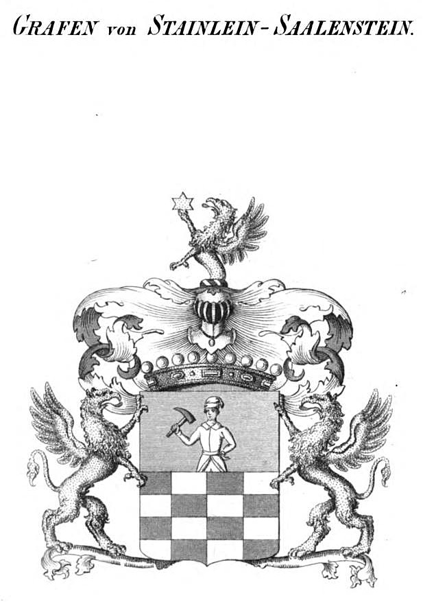 Wappen der Grafen von Stainlein-Saalenstein